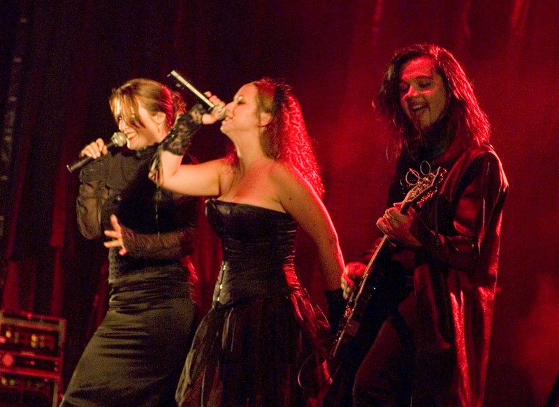 Therion live in Płock, Poland, 2008-09-06.